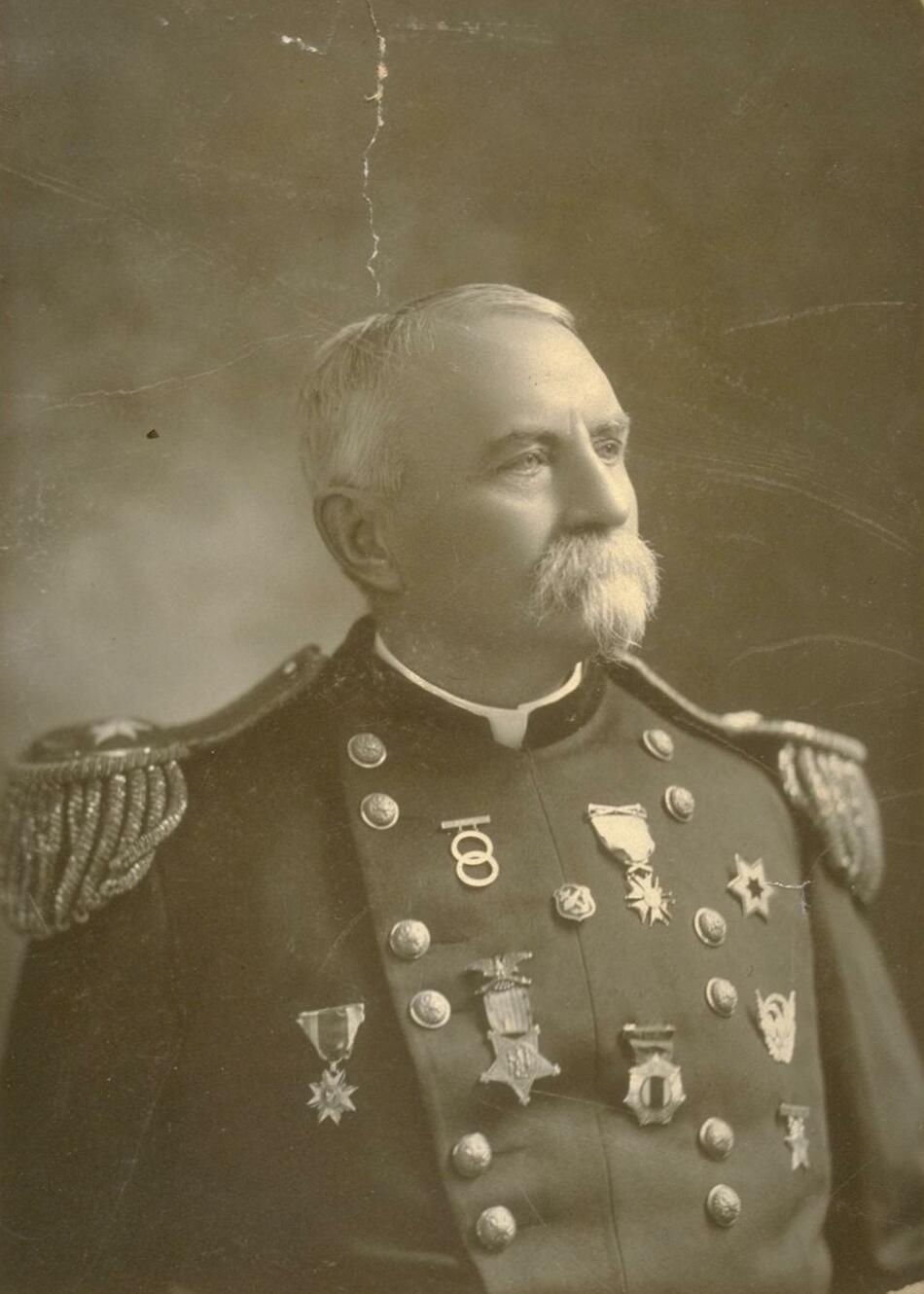 Harrison Gray Otis (1837–1917) — 2nd publisher of the Los Angeles Times. Original caption: "To Harry E. Andrews, Esq. From your friend, Harrison Gray Otis, late Brig. Gen. U.S. Vols. 1st Brigade, 2d Division, 8th Army Corps. Photograph by Marceau"